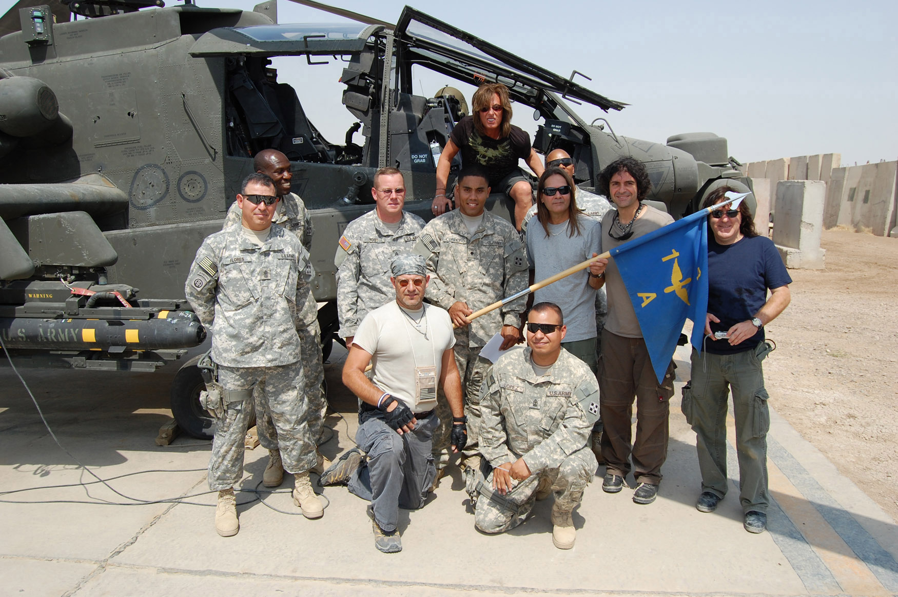 Soldiers from the Combat Aviation Brigade, 4th Infantry Division, Multi-National Division ? Baghdad and the classic rock 'n' roll band Big Noize stand in front of an AH-64D Apache helicopter on Camp Taji Sept. 11. The band, comprised of members from Deep Purple, Quiet Riot, Ozzy Osbourne and AC/DC visited the CAB and played a standing room only concert for service members and civilians stationed on the camp north of Baghdad. In the cockpit is singer Joe Lynn Turner. Standing behind the guidon are guitarist Carlos Cavazo, bassist Phil Soussan, and drummer Simon Wright.